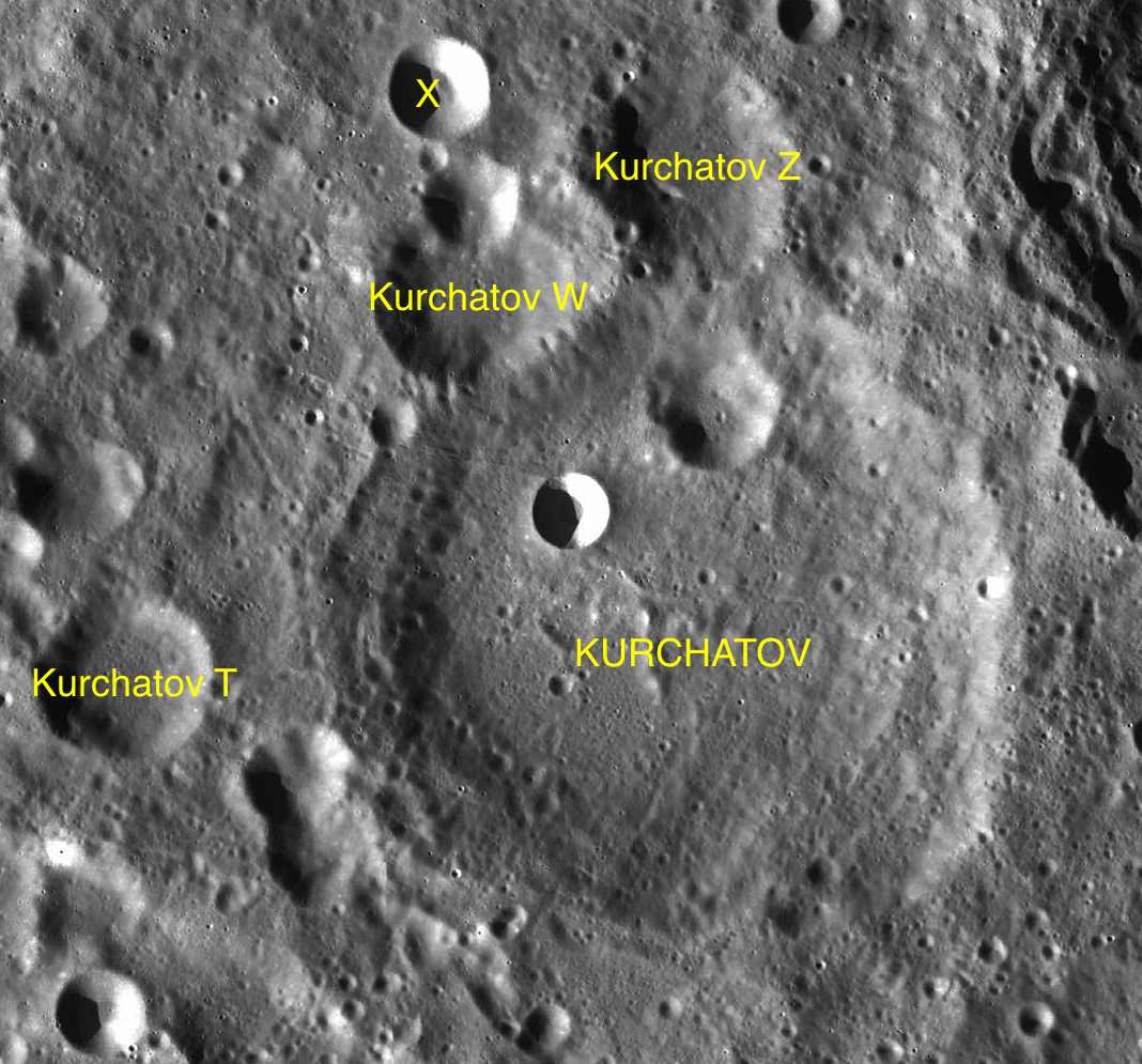 Part of the chart LAC-31 used for the presentation